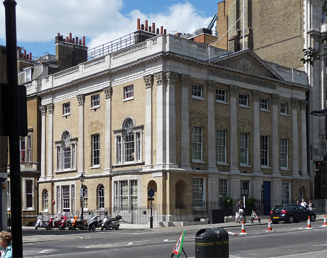 Refined elevation of white Suffolk brick with giant Corinthian pilasters crowned by a pediment containing an oval relief. The return elevation has Venetian windows. It was built in 1776-78, the architect Henry Holland's first major commission. There have been a number of later alterations, including the addition of the balustrade. Grade I listed.